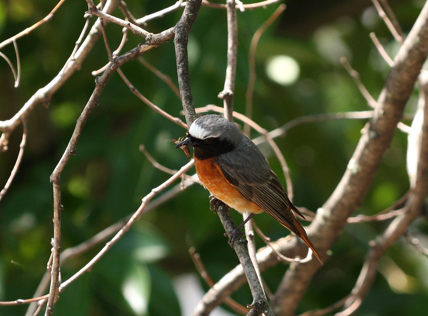 A common redstart (Phoenicurus phoenicurus) male with an earwig in its beak, photographed on the grounds of Fondazione Edmund Mach in San Michele all'Adige (TN), Italy.